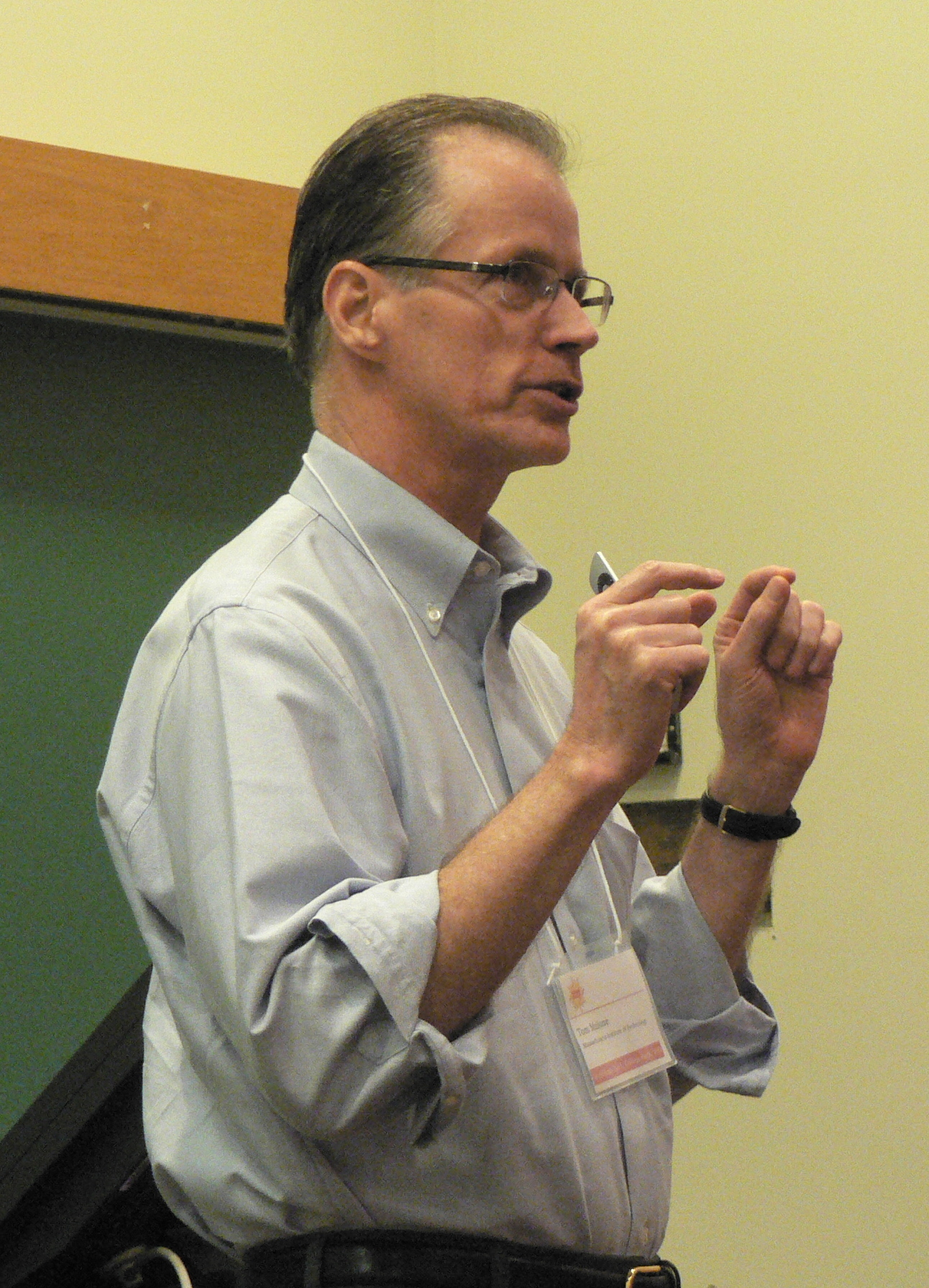 Webshop 2011 was held at the University of Maryland on August 23-26, 2011. Webshop gathered 45 students and 20 speakers for a four day program of lectures and workshops related to applying social media to improving collective action and realizing national goals related to health, disaster recovery, competitiveness, education, and security.